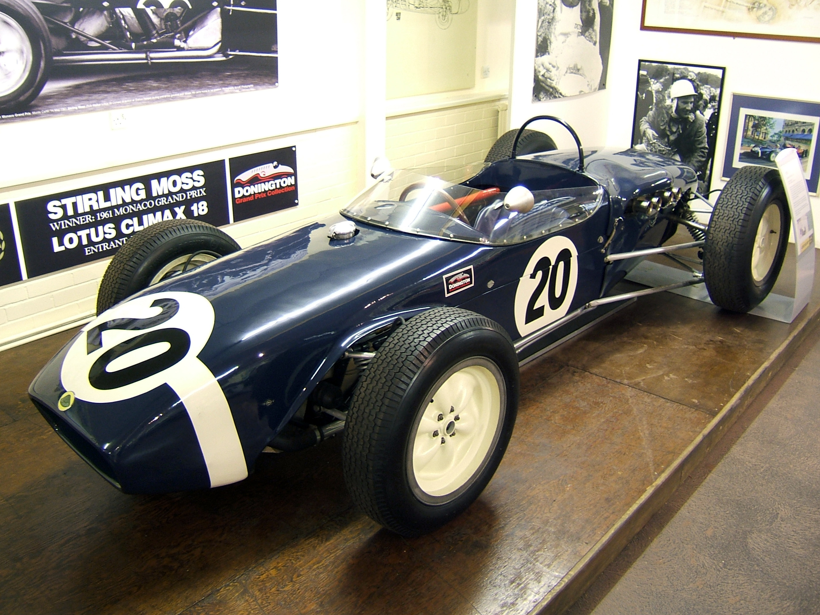 The Rob Walker Racing Lotus 18 Formula One car with which Stirling Moss won the 1961 Monaco Grand Prix. In the Donington Grand Prix Collection museum, Leics., UK.